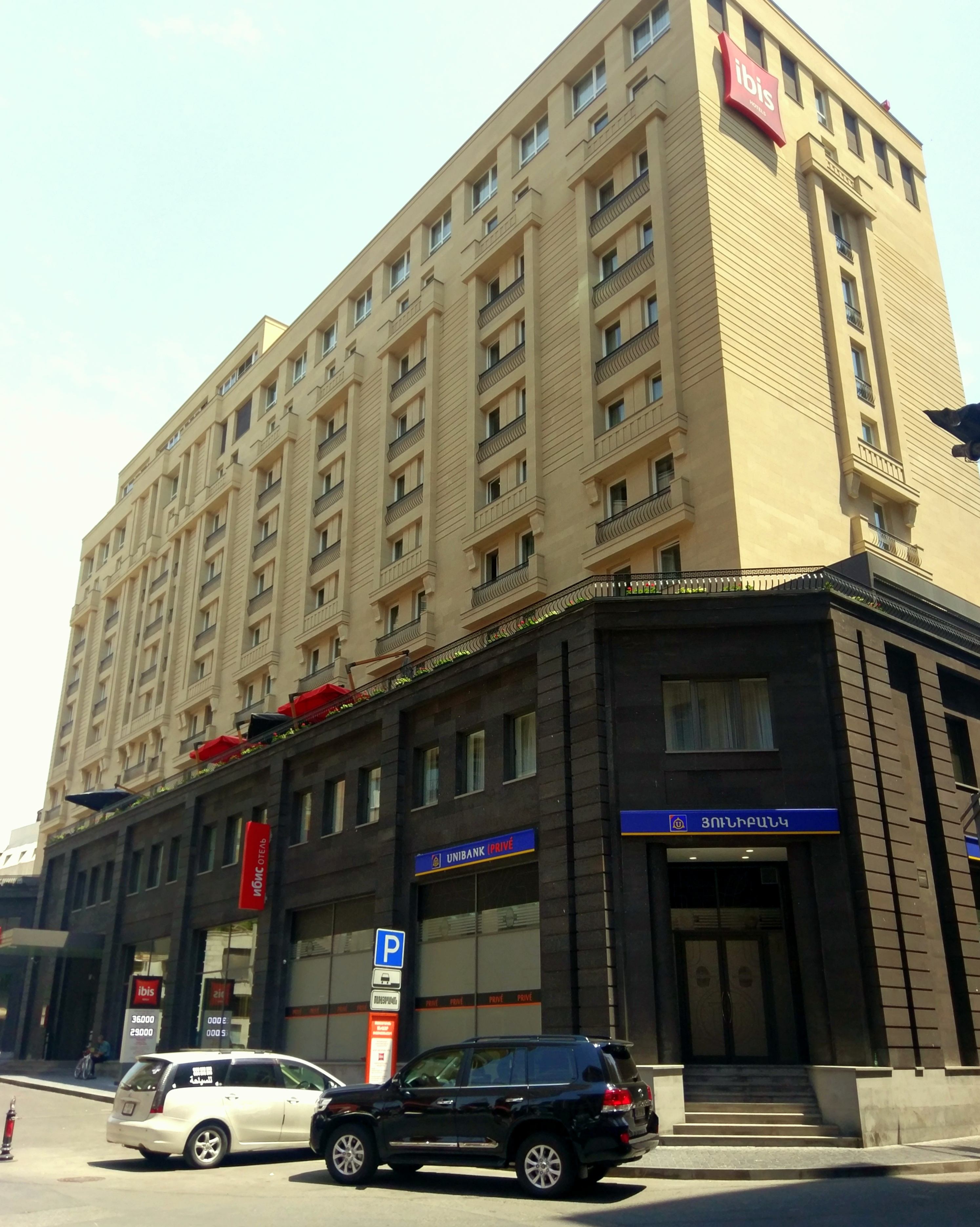 Ibis Yerevan Center.